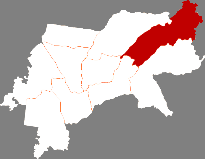 Location of Suileng County in Suihua City, China